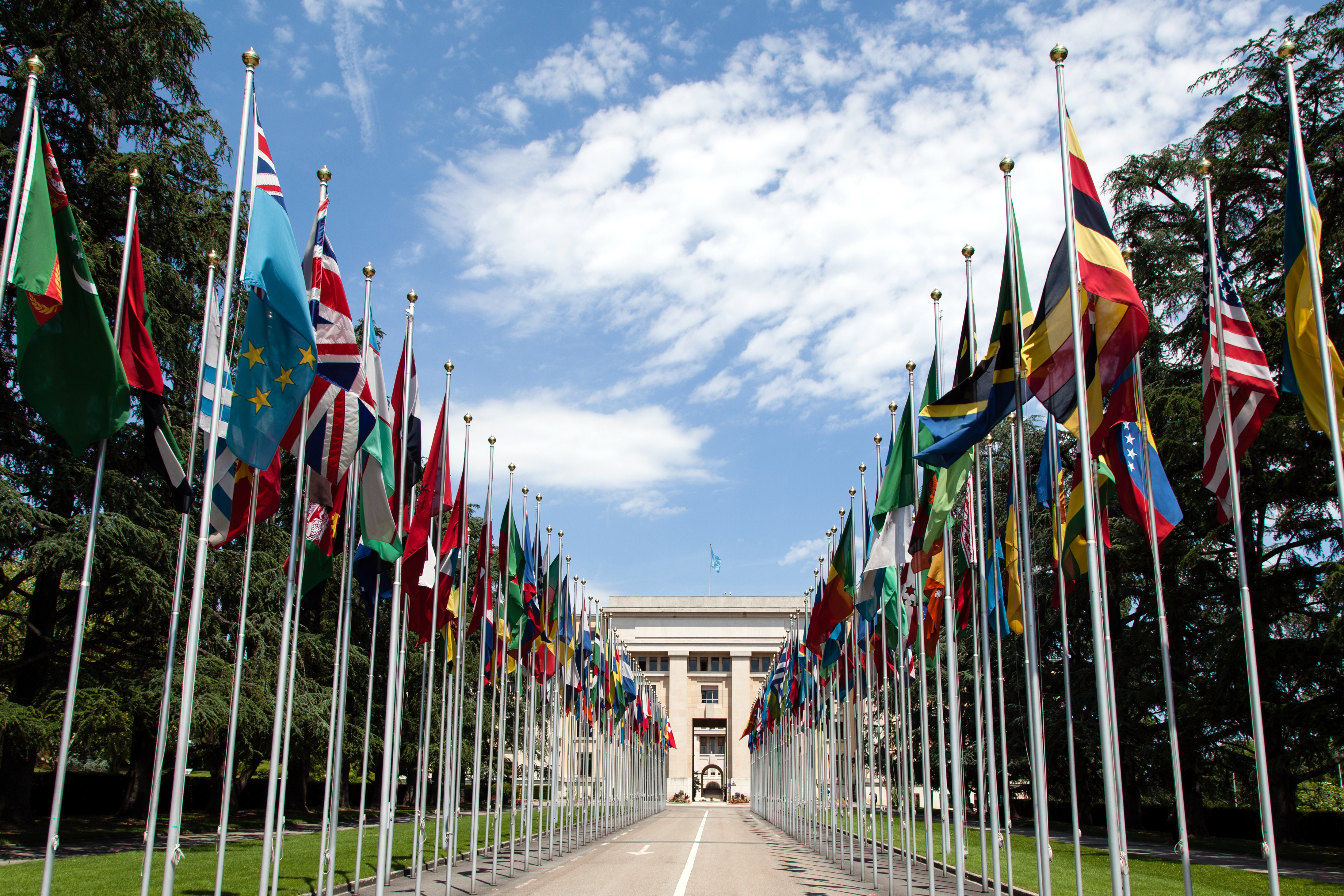 The Allée des Nations in front of the Palace of Nations (United Nations Office at Geneva).